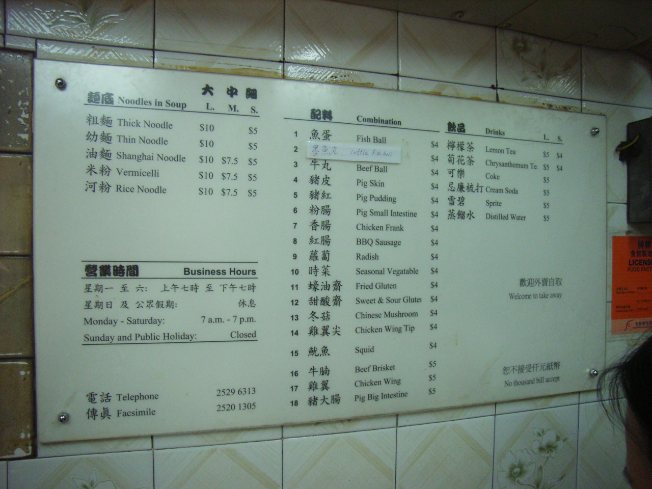 車仔麵的餐牌 (A1 Wong East).